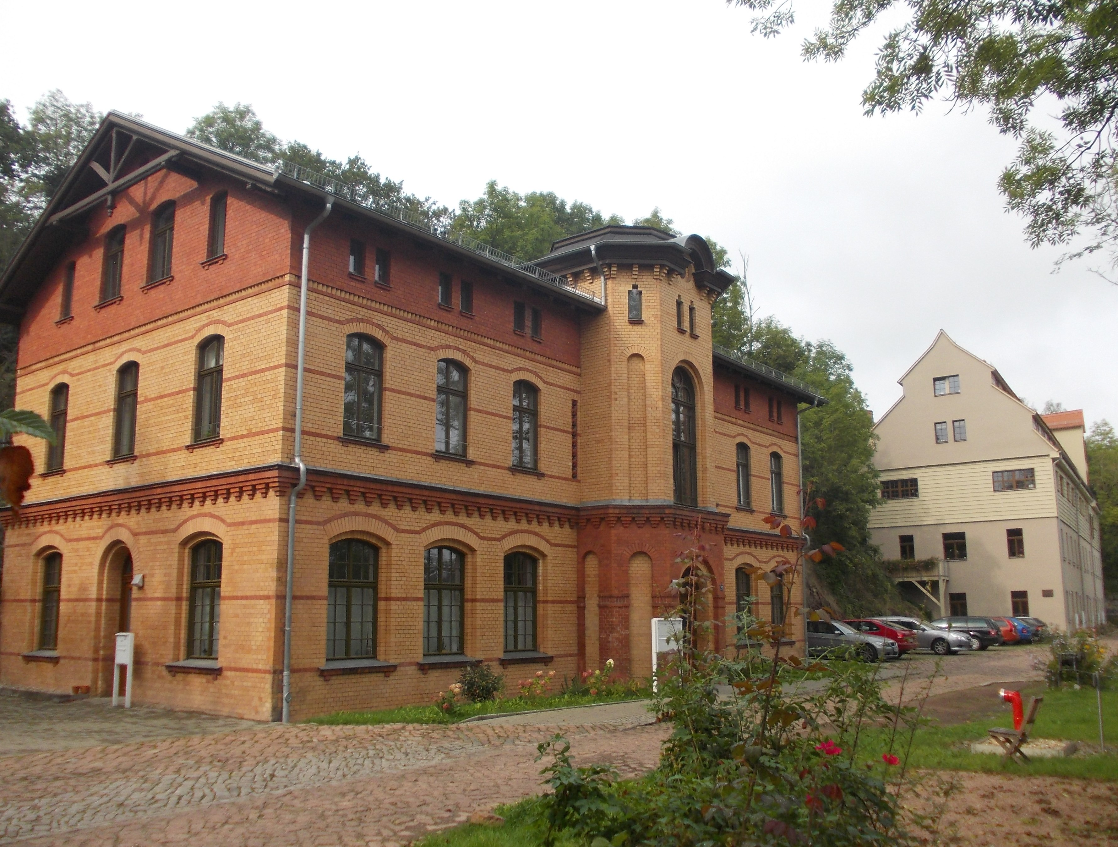 Manufacturer's villa at the former paper factory in Kröllwitz (Halle/saale, Saxony-Anhalt)